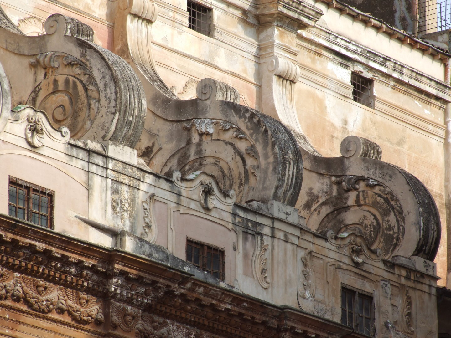 palermo sicilia sicily italia italy nature sea beach sun summer town city light landscape free europe europa eu wallpaper gnuckx resolution vacation holiday travel flight creative commons panoramio flickr google gnu